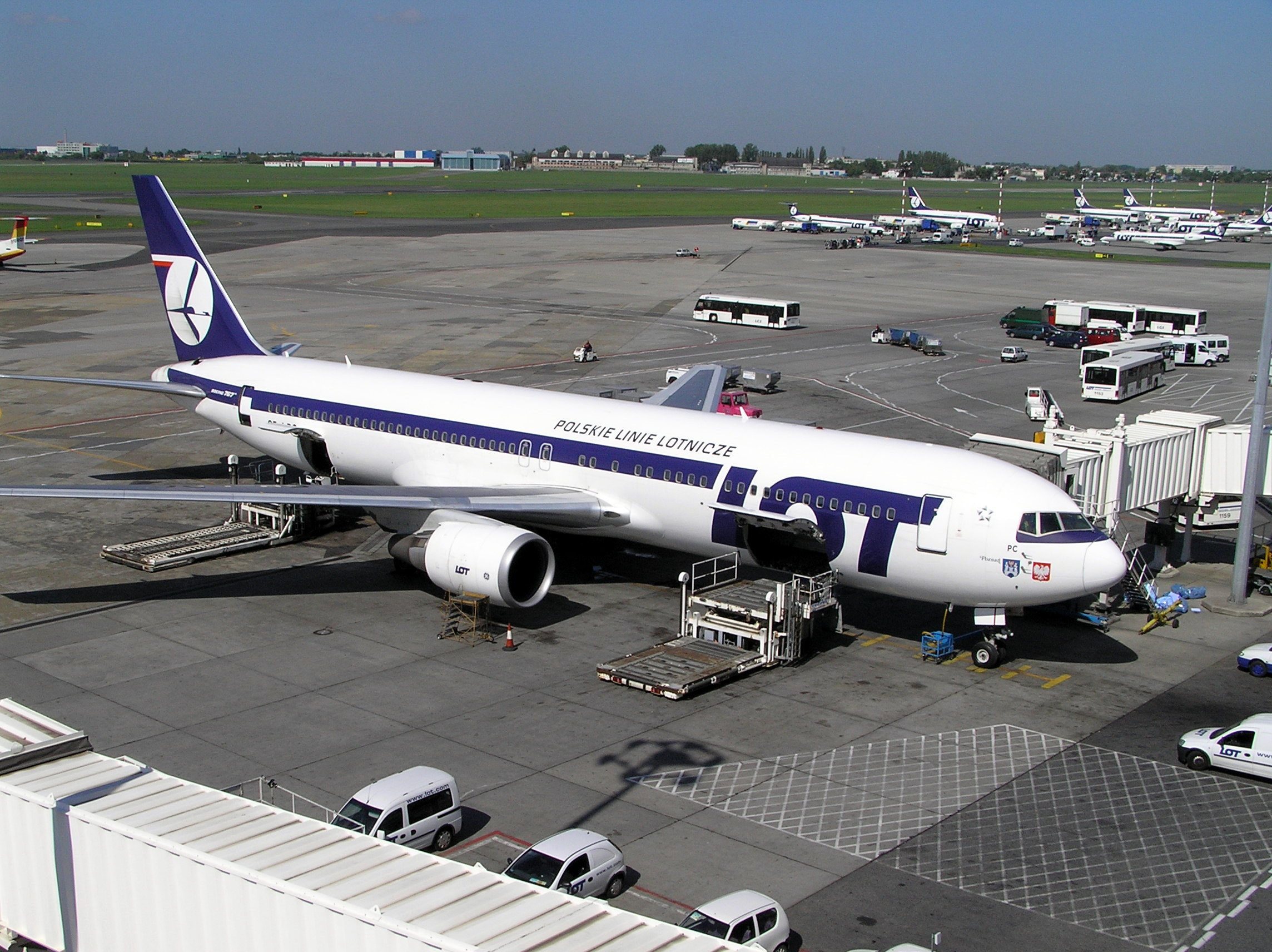 LOT Polish Airlines Boeing 767-300 (SP-LPC "Poznań")